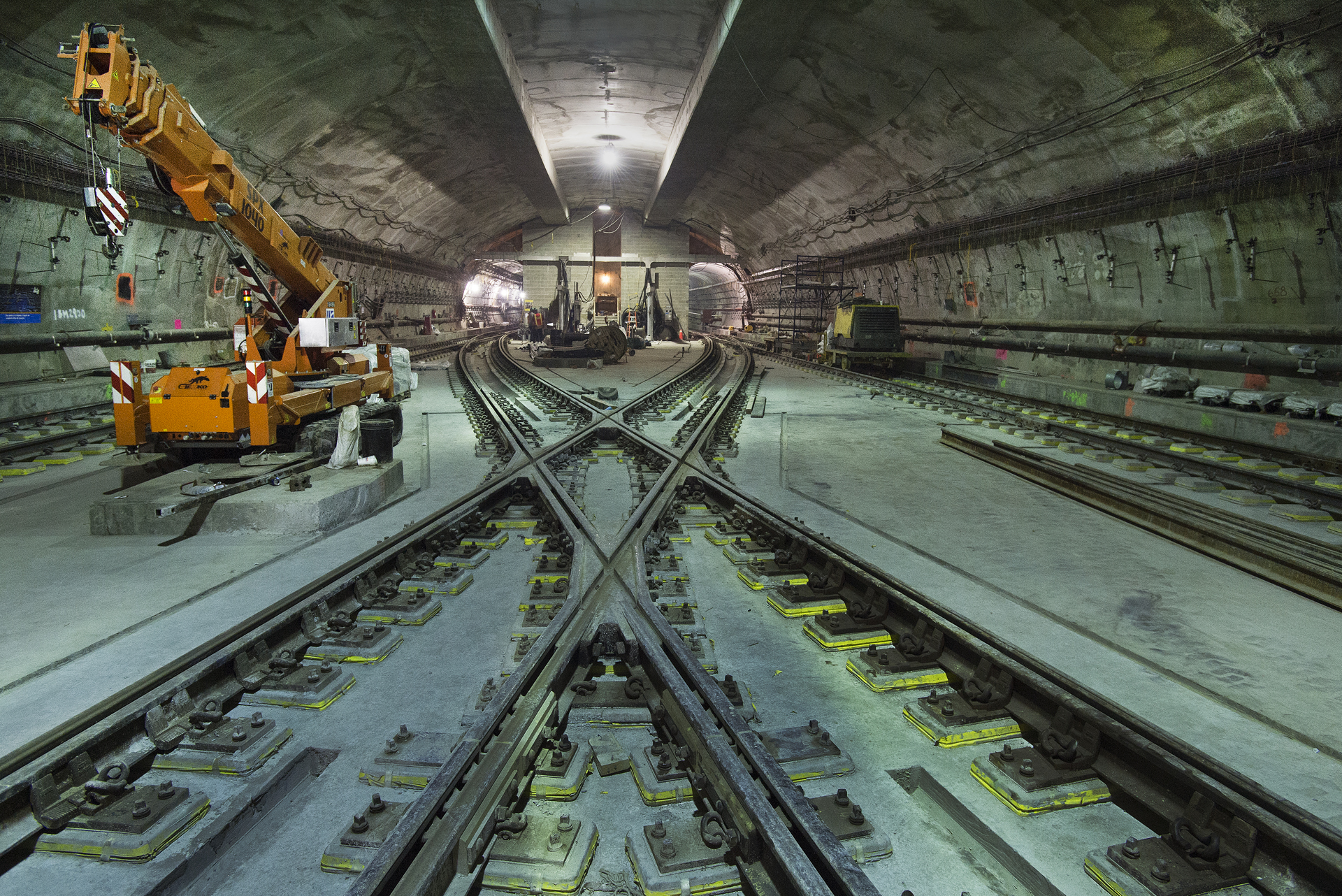 Diamond crossover on the 7 Subway Extension, under construction north of en:34th Street (IRT Flushing Line)